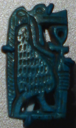 Taweret amulet. Ivory. New Kingdom, Dynasty XVIII, c. 1539-1292 BC. Possibly from Memphis.